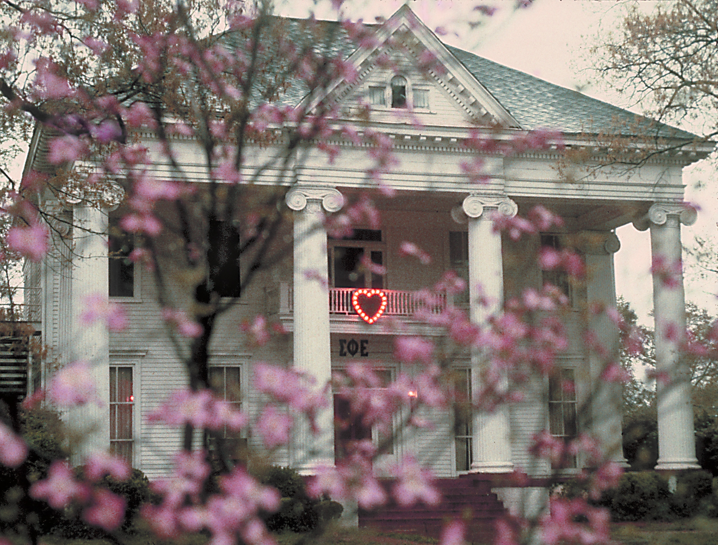 One of several sorority buildigs at the University of Georgia, shot through blossoming cherry trees. USA, Spring 1980.